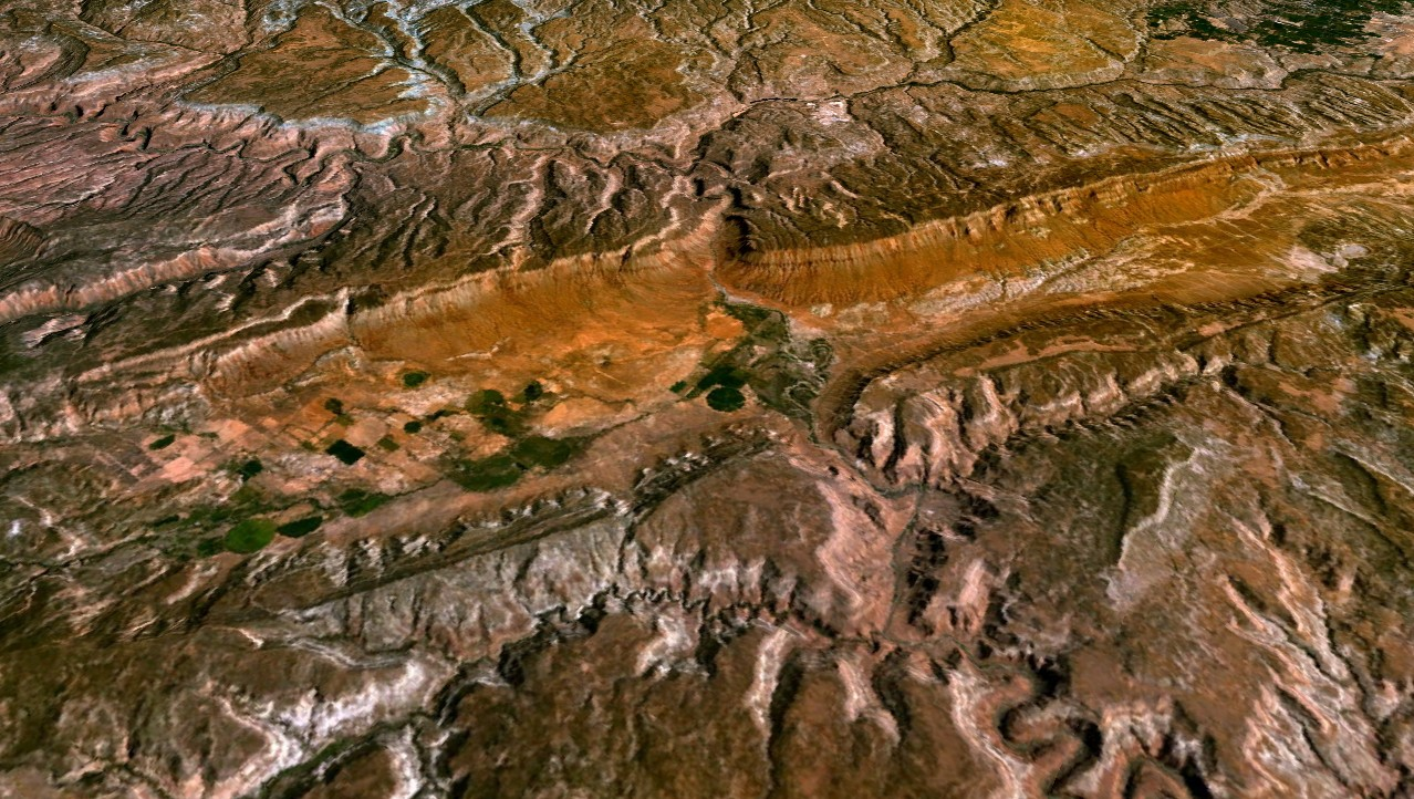 Simulated view of Paradox Valley in Colorado. Created with NASA's World Wind software, version 1.4, using the LandSat 7 visible color layer.